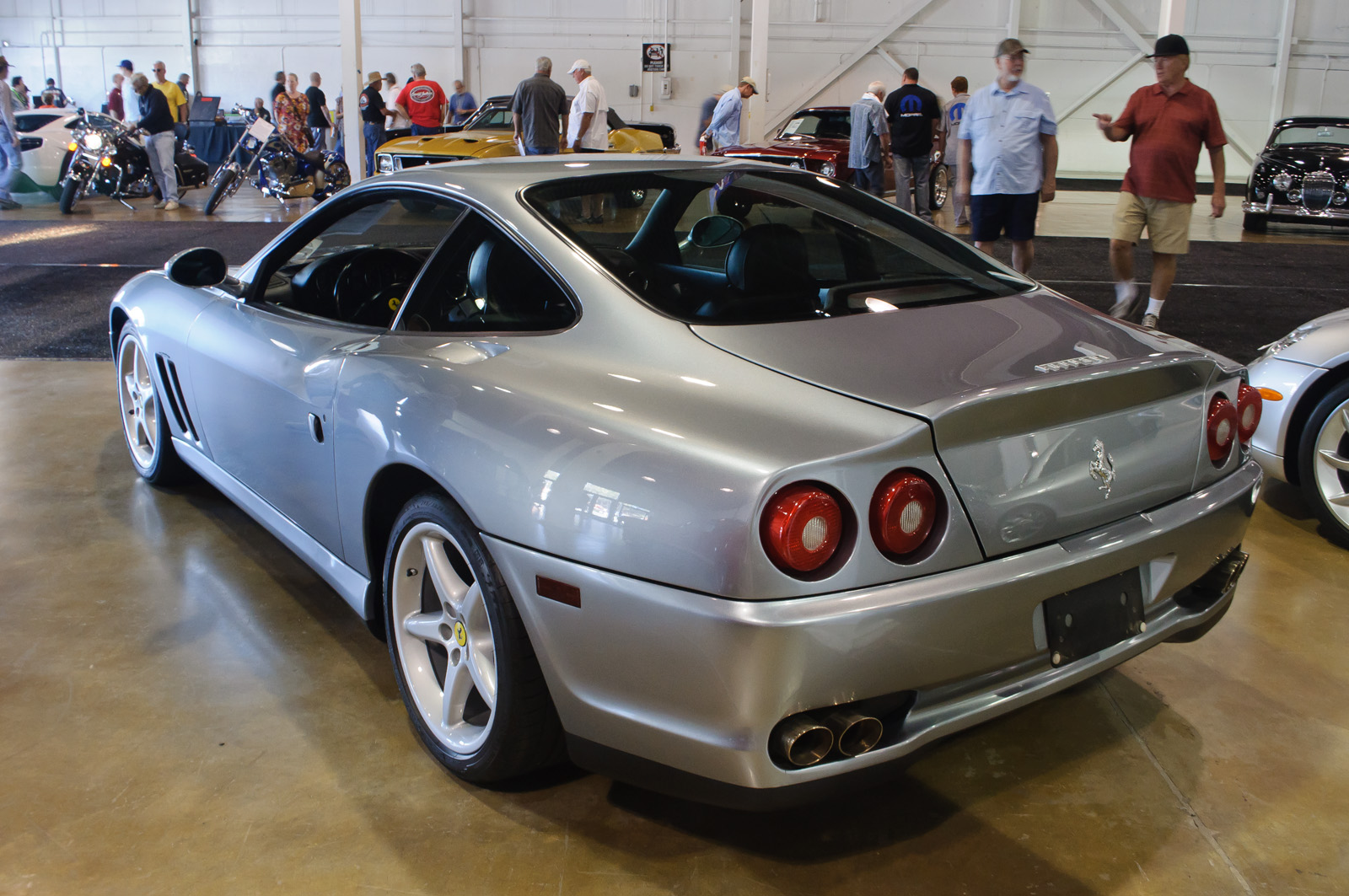 The 550 Maranello was Ferrari's late 1990s front-engined grand tourer, replacing the successful Testarossa/512 of the 1980s. This particular example is a Southern California car, with 36,832 miles on the odometer and full service records. Seen at Barrett-Jackson Auction 2012.